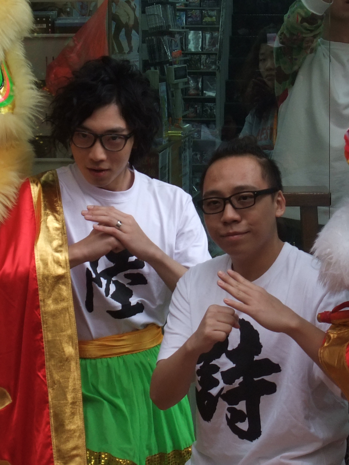 Photo of FAMA